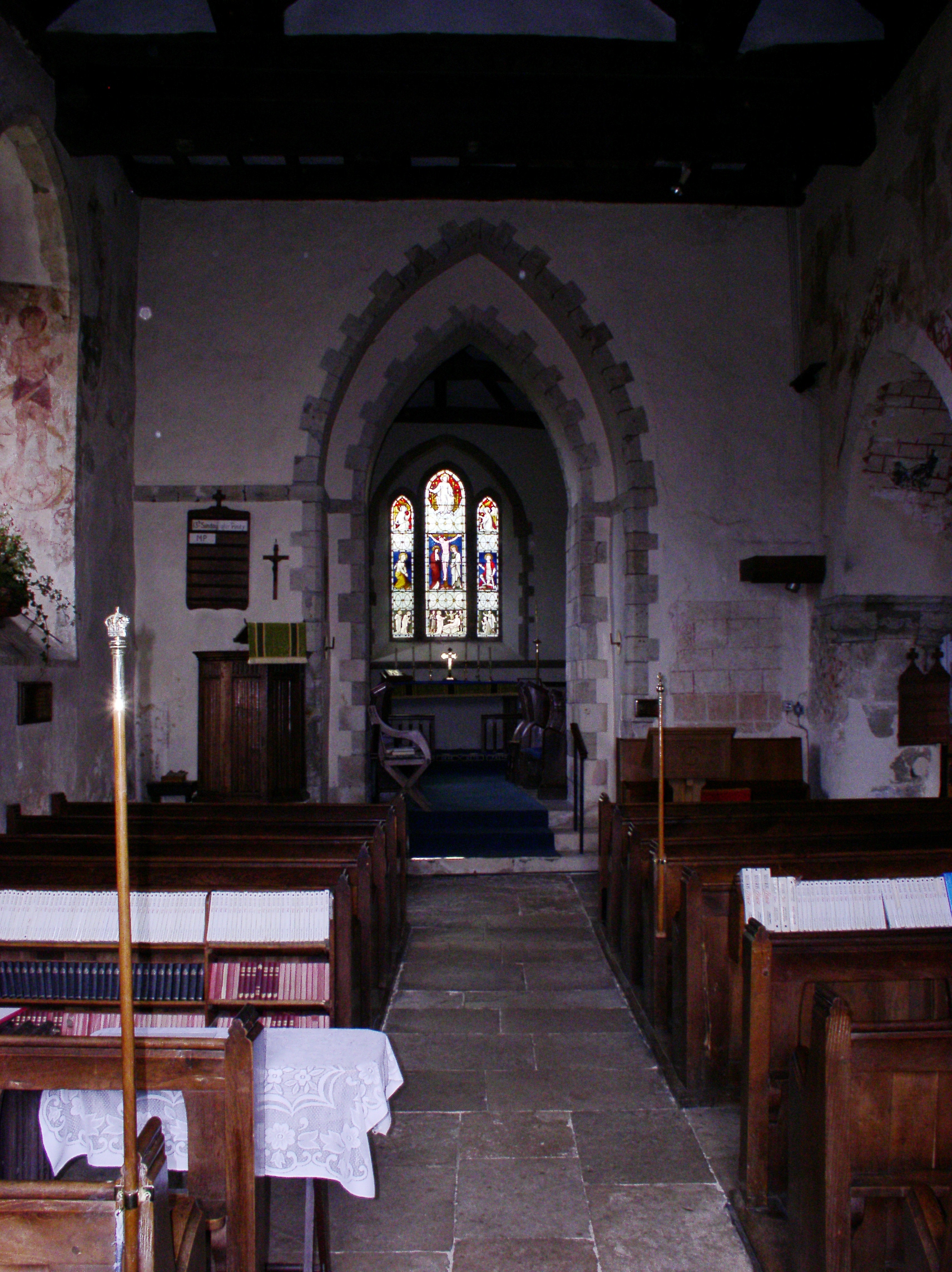 The nave of St Mary's Church, West Chiltington, West Sussex, England.